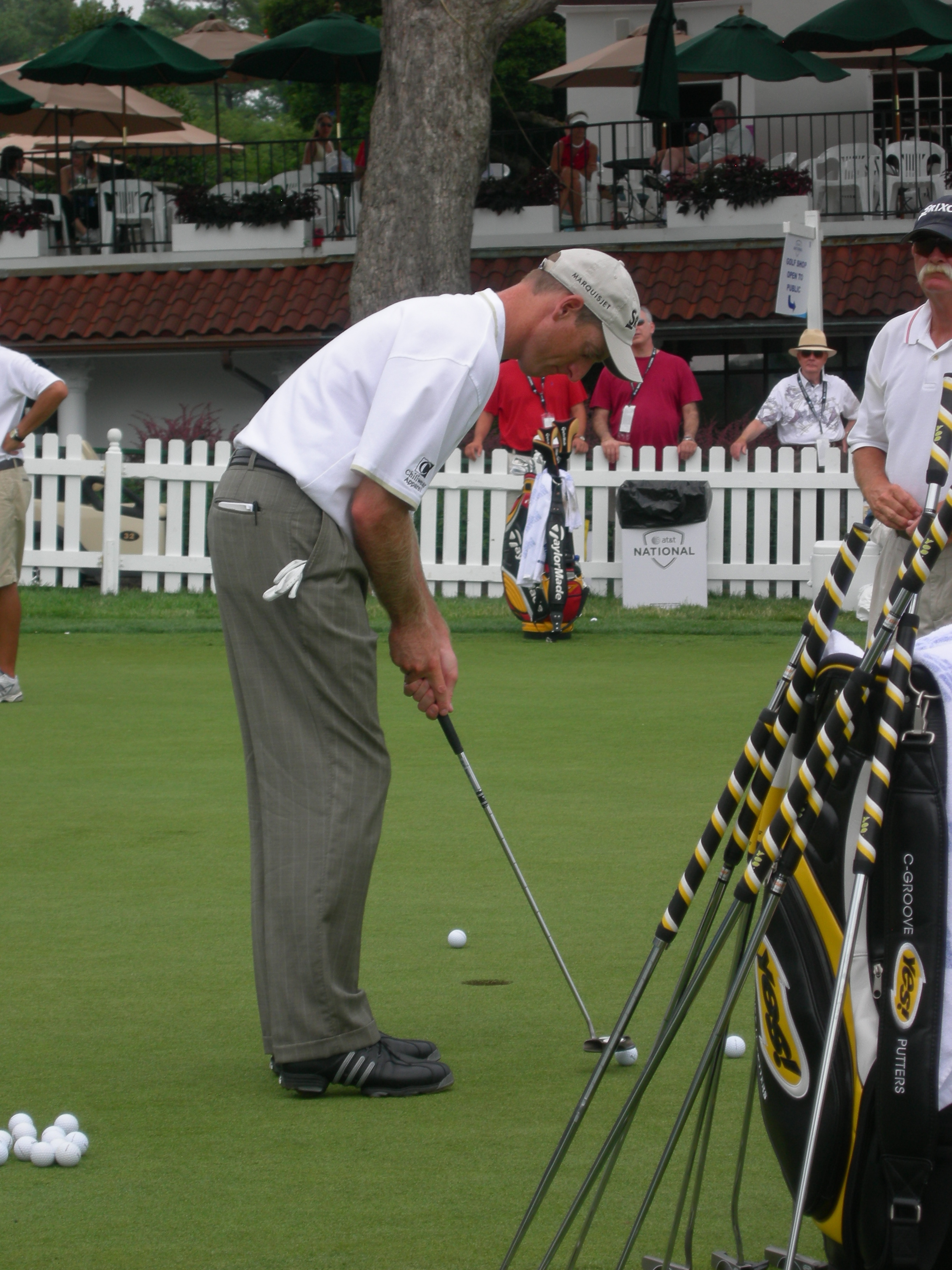 Jim Furyk on the putting green at the Congressional Country Club during the Earl Woods Memorial Pro-Am prior to the 2007 AT&T National tournament. His caddie, Fluff Cowan, is on the right edge of the photo.